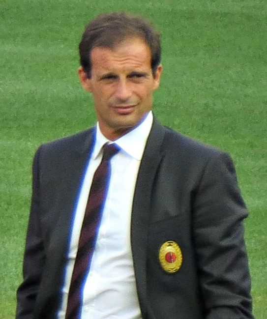 Massimiliano Allegri, coach of AC Milan, in 2012.